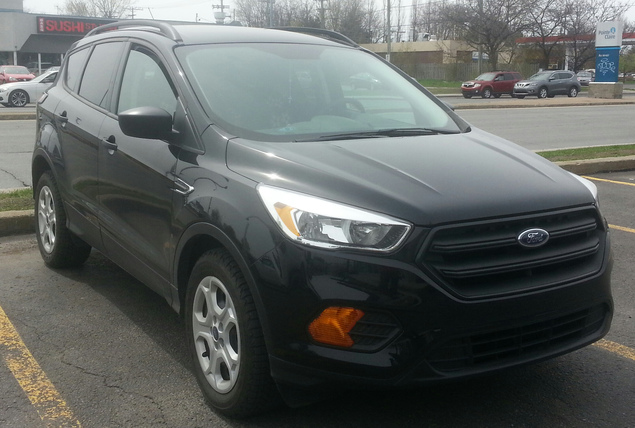 2017 Ford Escape & 2014-2016 Nissan Rogue photographed in Pointe-Claire , Quebec, Canada .